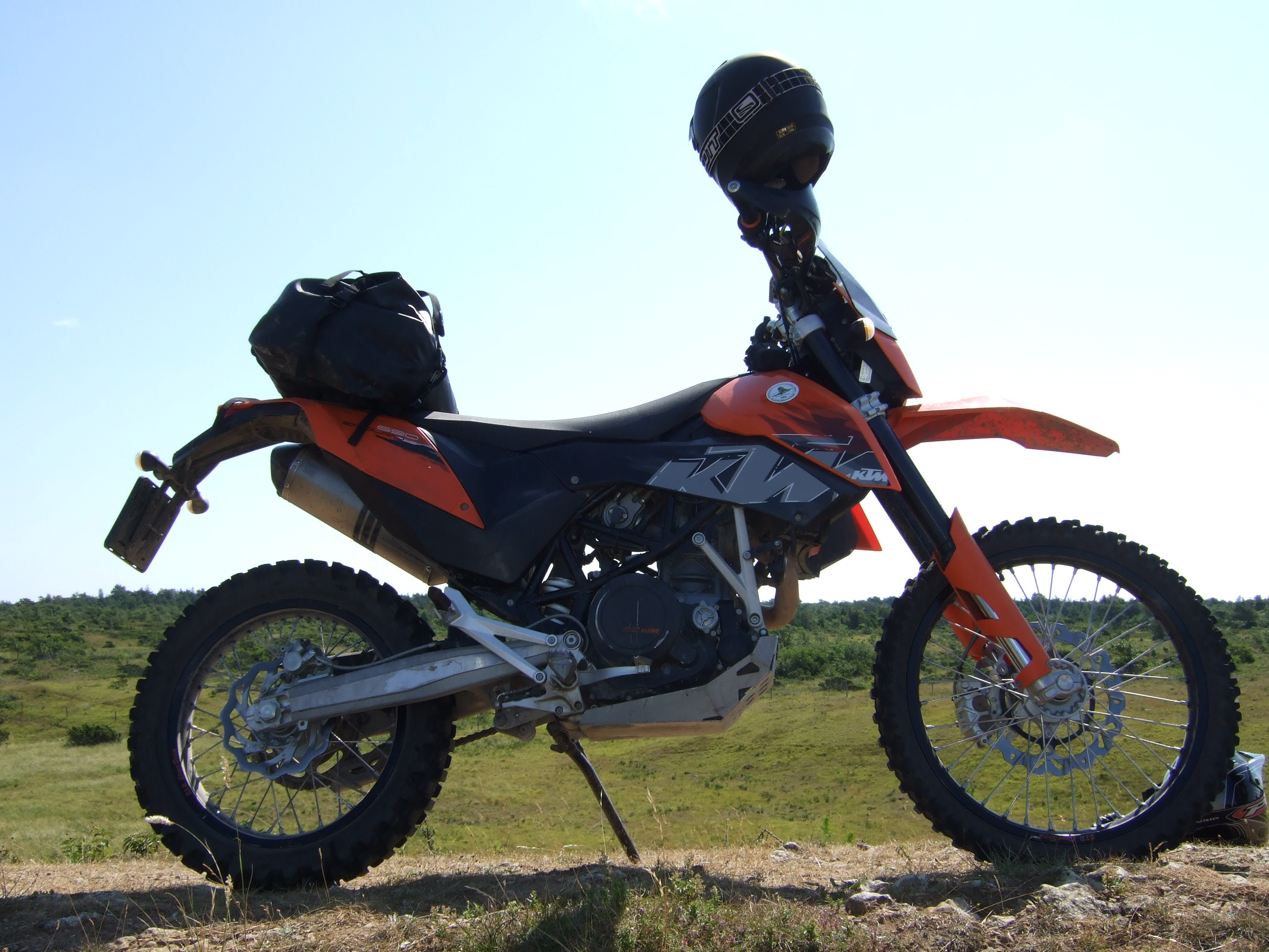 Picture of a KTM 690 Enduro on a hill in Gotland, Sweden